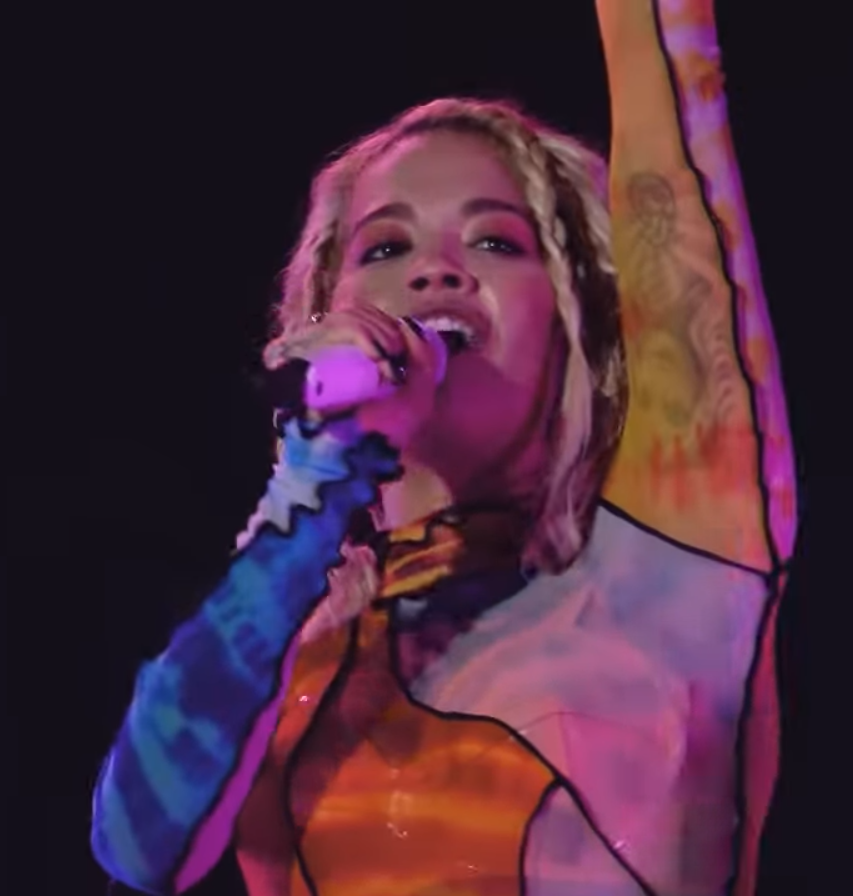 Rita Ora performing ‘Girls’ for us at MTV Presents Gibraltar Calling 2018…